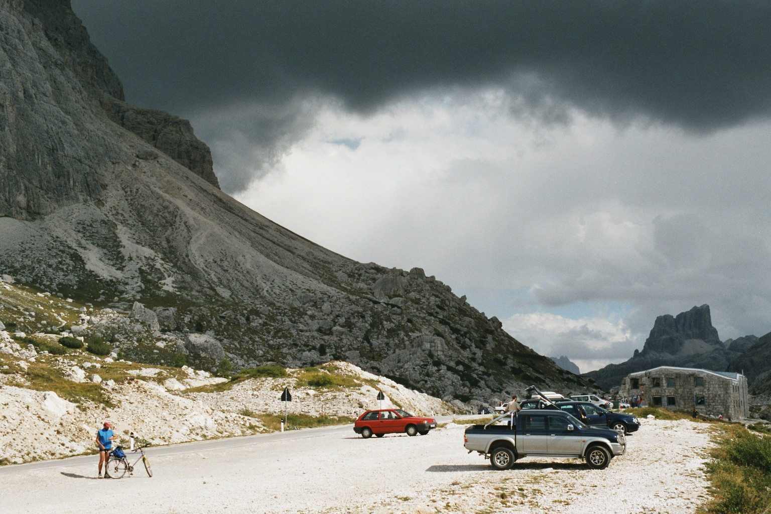 Italian Alps, province of Belluno: Passo Valparola, ladin Ju de Valparola, Valparolapass (until the first world war part of Tyrol). Picture taken 2003, September. With old Austrian fort of Tre Sassi. The mountain in the background is the Averau.